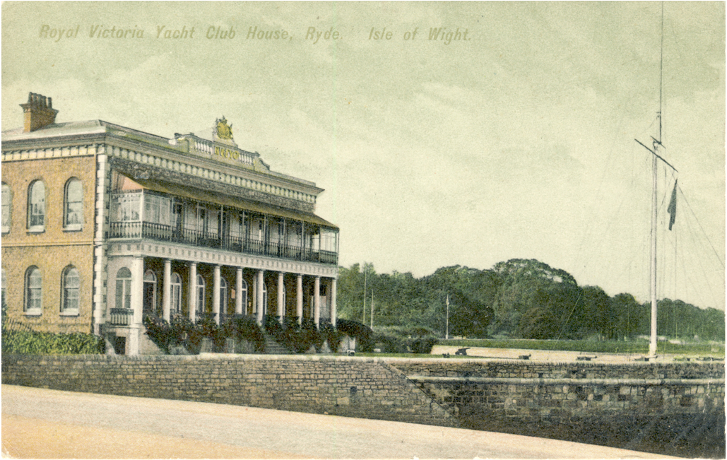 Clubhouse of the Royal Victorian Yacht Club, Ryde, 1909